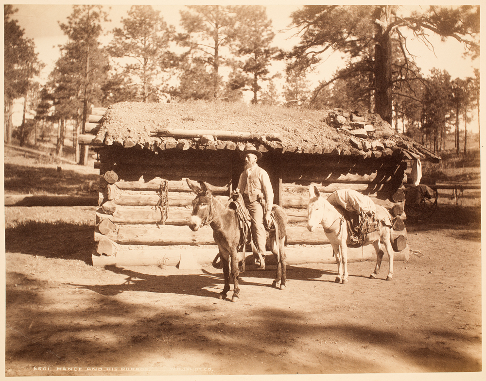 Title: Hance and His Burros. Creator: W. H. J. Phot. Co. Date: ca. 1892 Part Of: Place: Arizona Physical Description: 1 photographic print: gelatin silver; 18 x 24 cm. on 27 x 34 cm. mount File: vault_ag1982_0122x_08_sm_opt.jpg Rights: Please cite DeGolyer Library, Southern Methodist University when using this file. A high-resolution version of this file may be obtained for a fee. For details see the web page. For other information, . For more information, View U.S. West: Photographers, Manuscripts, and Imprints